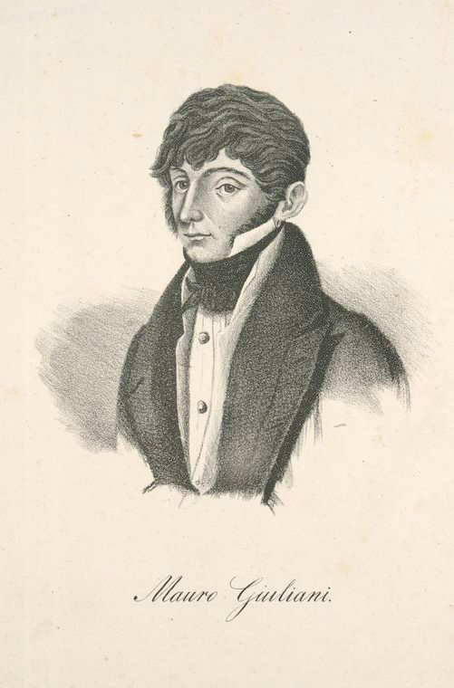 Image of "Mauro Giuliani"